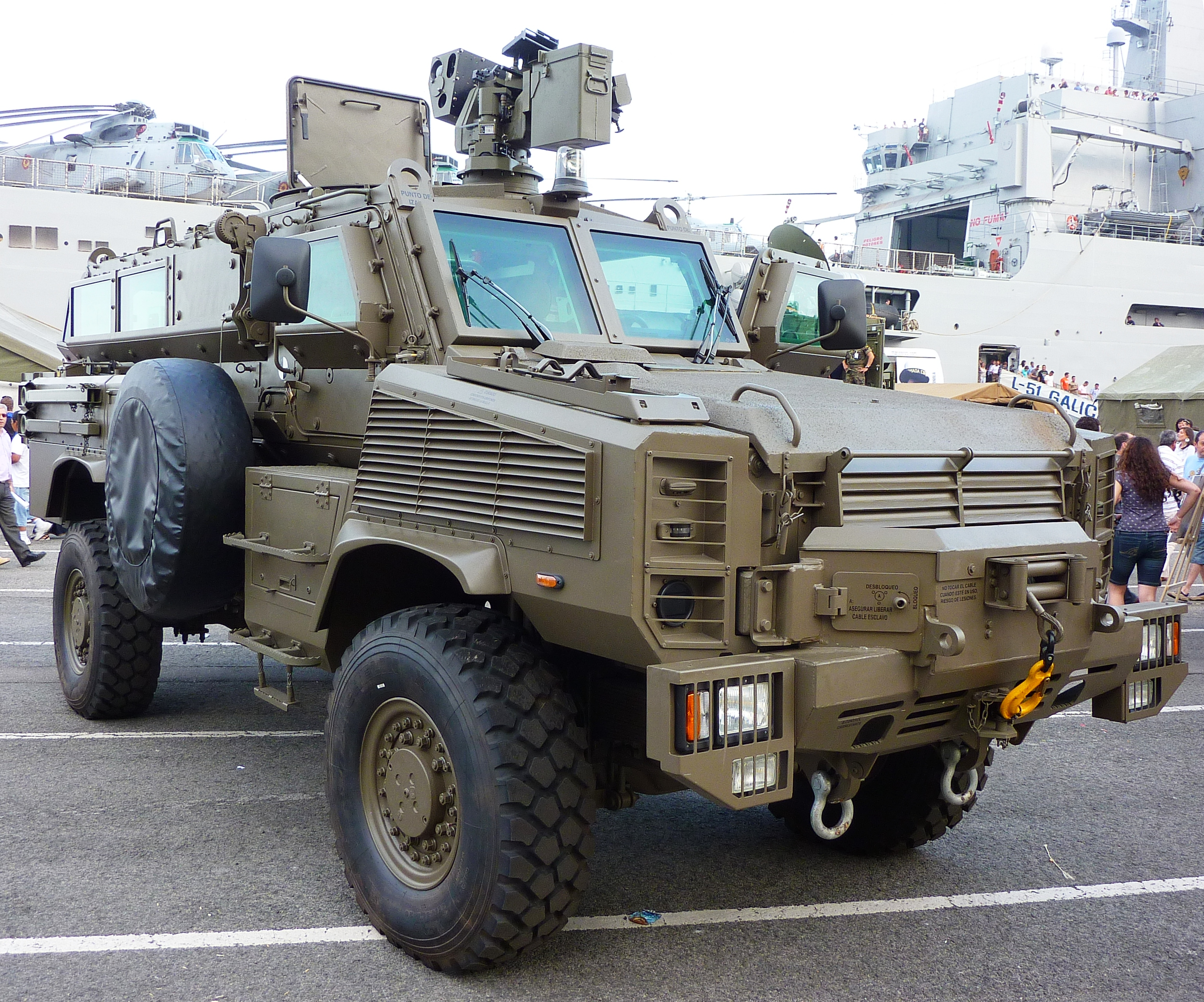 Spanish Army Nyala Mk.5E.